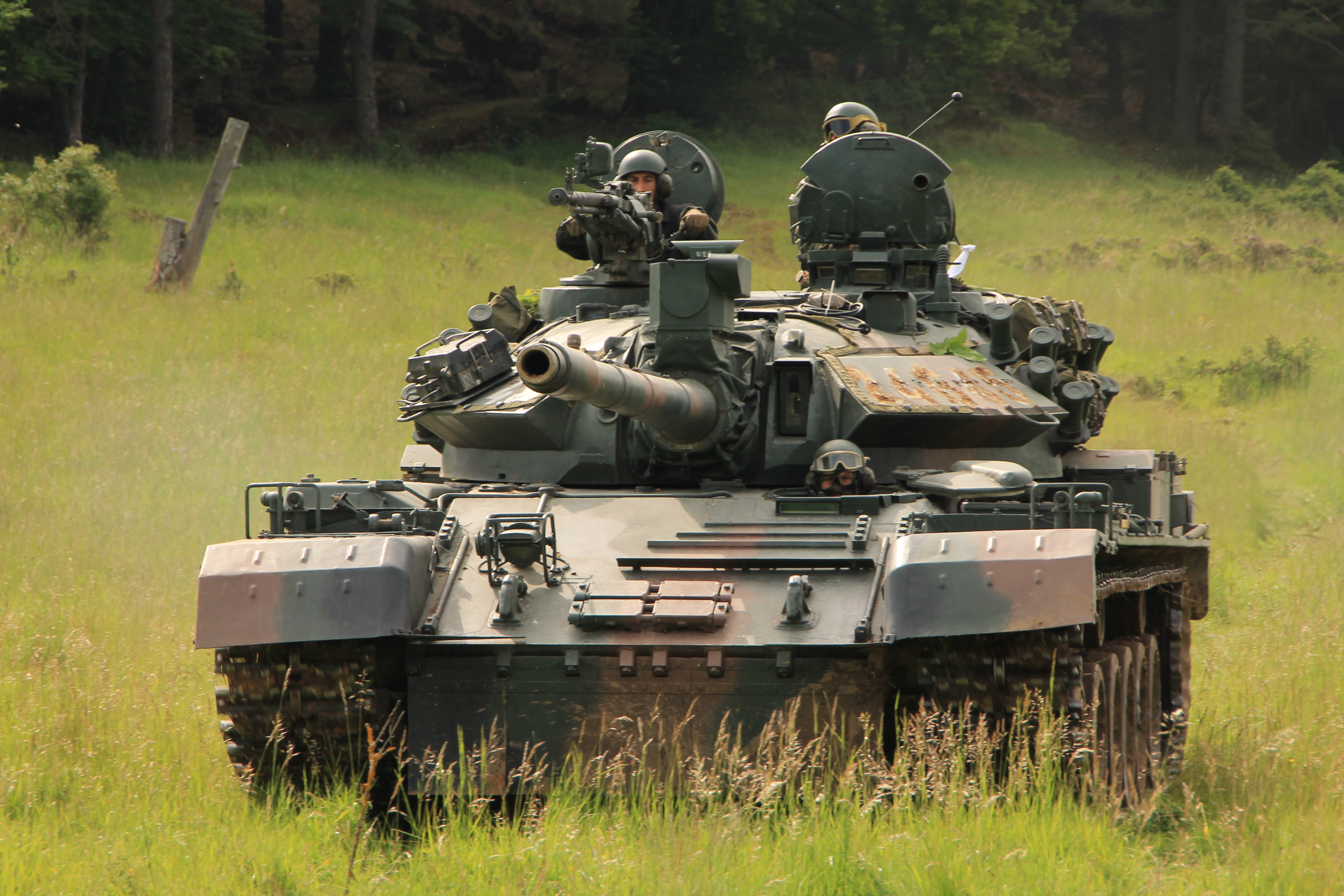 Romanian armored vehicles go on the offensive during Combined Resolve II at the Hohenfels Training Area, May 26, 2014. Combined Resolve II is a U.S. Army Europe-directed multinational exercise at the Grafenwoehr and Hohenfels Training Areas, including more than 4,000 participants from 15 allied and partner countries. The exercise features the European Rotational Force, a combined arms battalion of the 1st Brigade Combat Team, 1st Cavalry Division, the U.S. Army’s Regionally-Aligned rotational brigade combat team, that supports the U.S. European Command for training and contingency missions. For more photos, videos and stories from Combined Resolve II, check out (Photo courtesy of Romanian Land Forces)